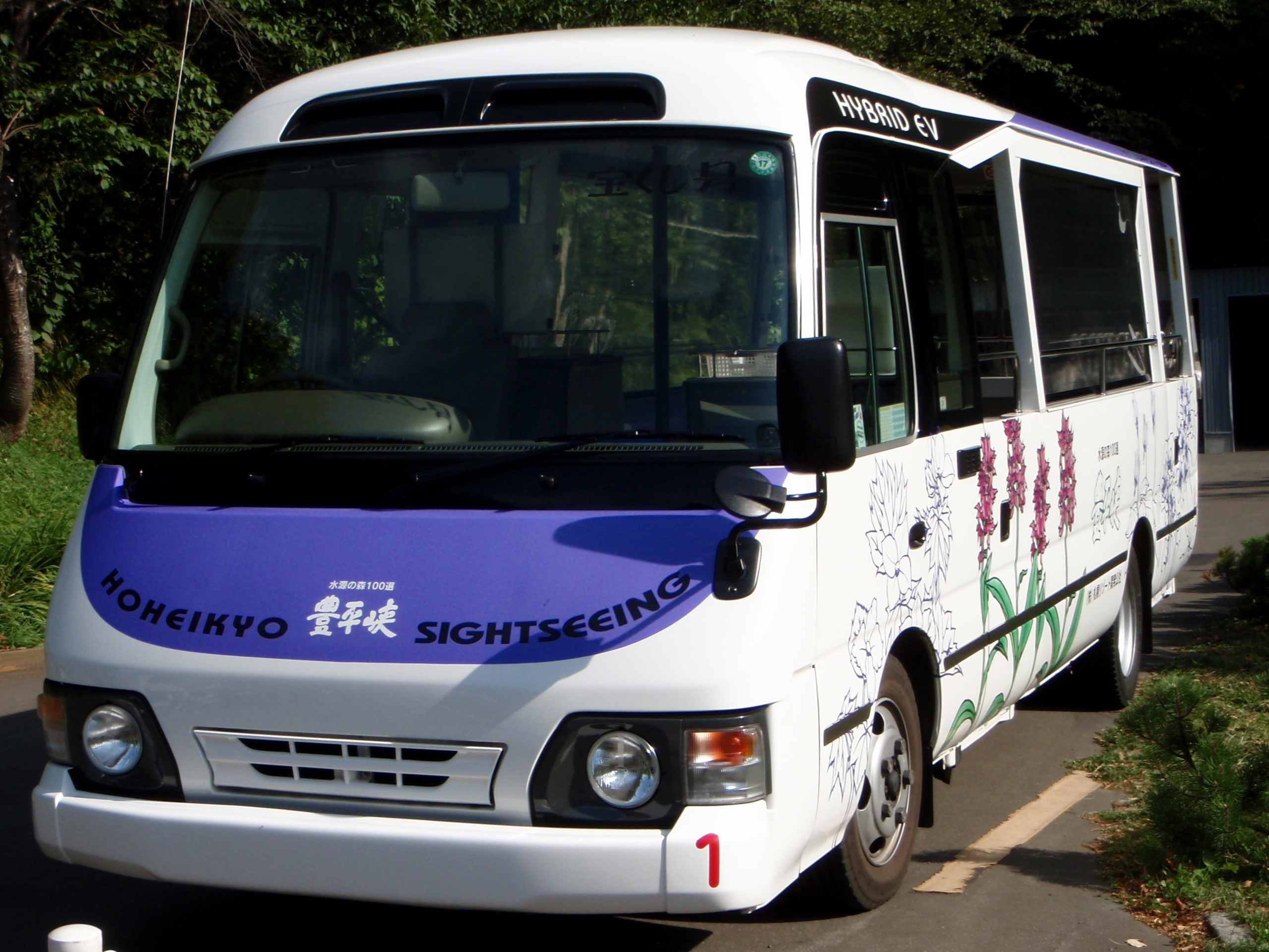 Toyota Coaster,Hybrid Electric bus.